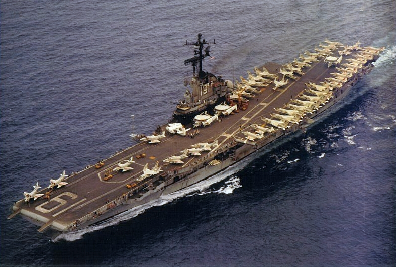 The U.S. Navy aircraft carrier USS Hancock (CVA-19) leaves Pearl Harbor, Hawaii (USA), en route to Vietnam after a change of command ceremony for Commander, U.S. Pacific Command, Adm. John S. McCain relieved Adm. Ulysses S. Grant Sharp on 31 July 1968. Hancock was deployed to Vietnam from 18 July 1968 to 3 March 1969.